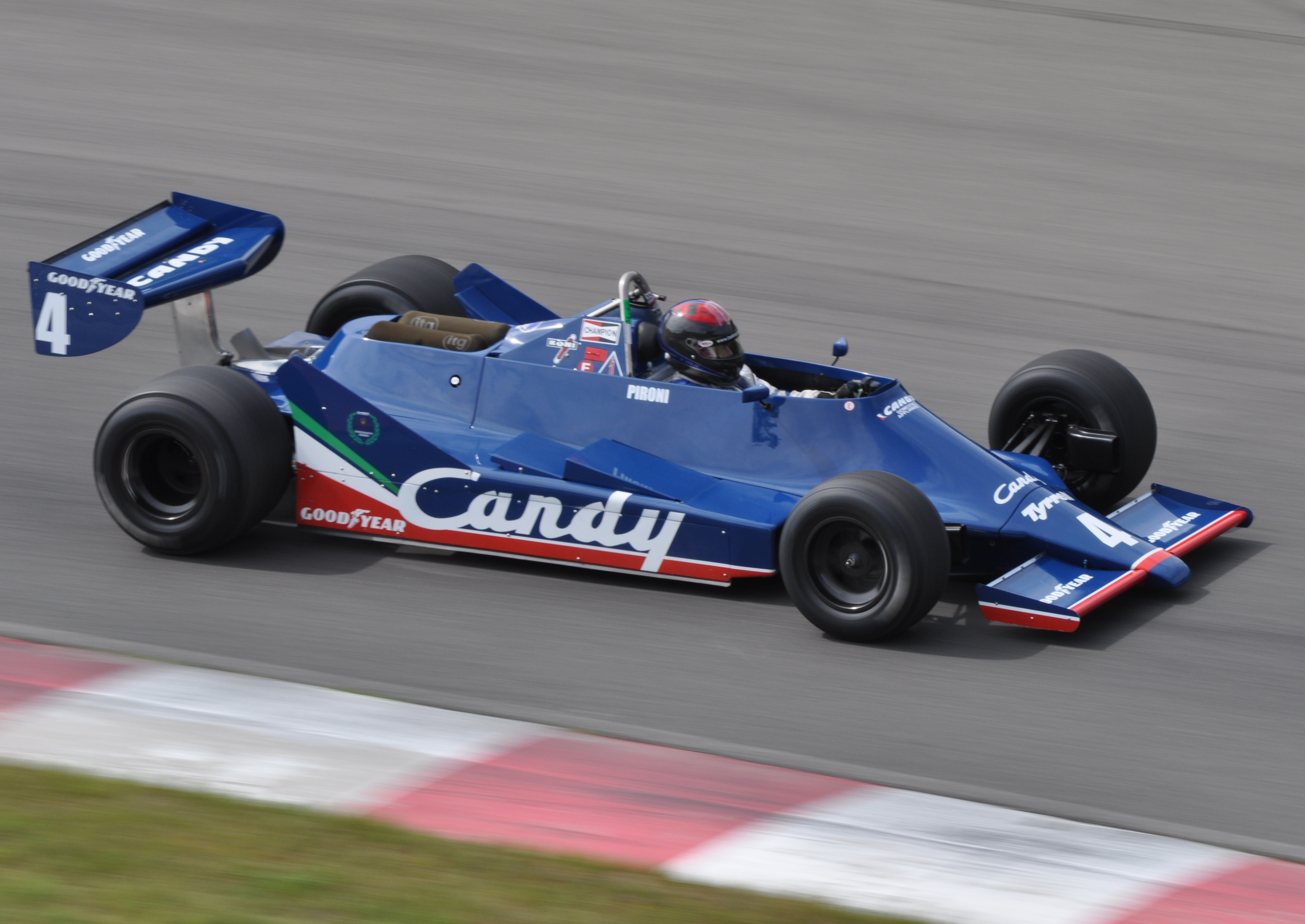 Greg Galdi at the wheel of an ex-Didier Pironi Tyrrell 009 Formula One racing car, during the 2010 Legends of Motorsport meeting at Circuit Mont-Tremblant.